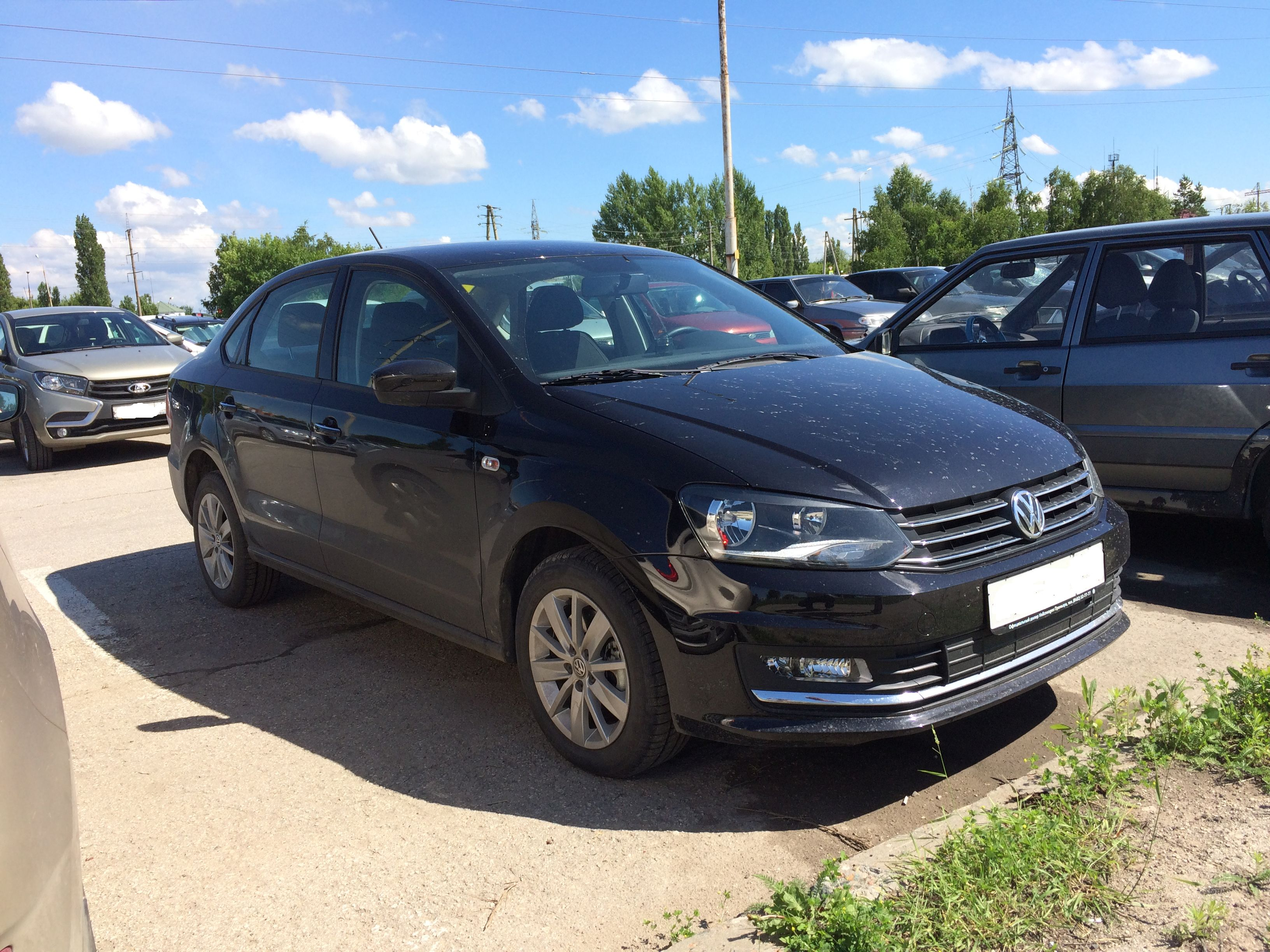 2015 VW Polo Sedan